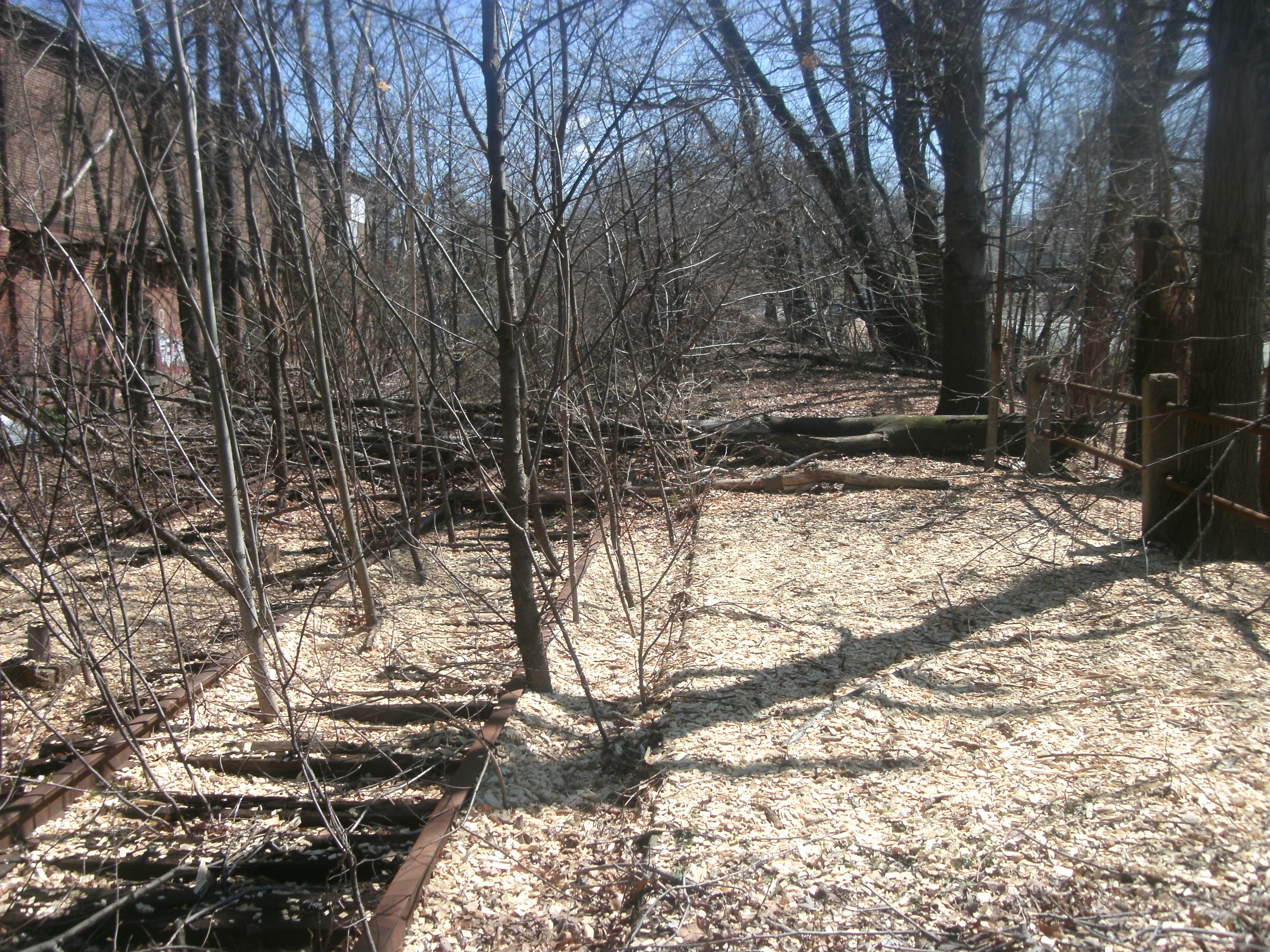 The station site for the old Carlton Hill station built by the Erie Railroad in Rutherford, New Jersey. The station platform, the main line tracks, the fencing are all visible, along with the old Royce Chemical Company to the far left.